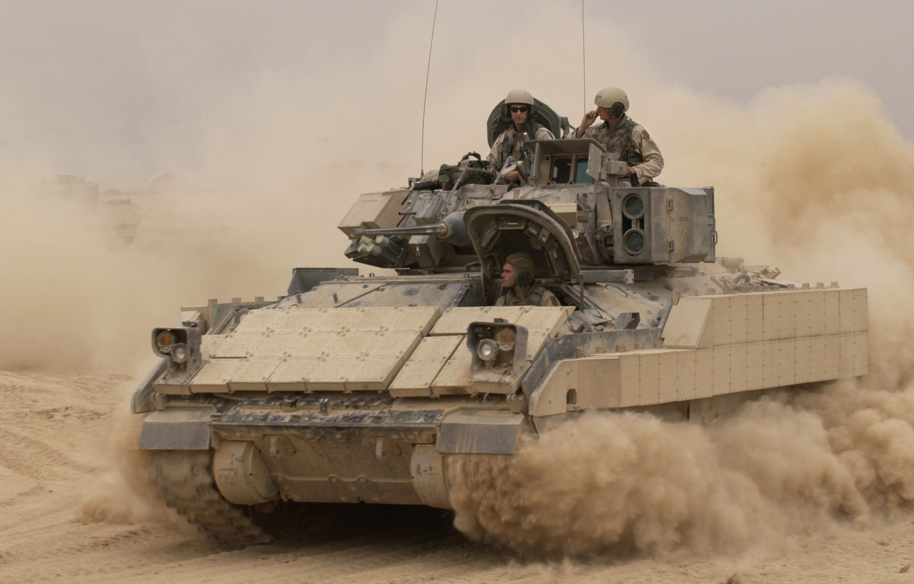 An M2A2 Bradley Fighting Vehicle kicks up plumes of dust as it leaves Forward Operating Base MacKenzie in Iraq for a mission on Oct. 30, 2004. The Bradley is assigned to Alpha Troop, 1st Battalion, 4th Cavalry Regiment, 1st Infantry Division.